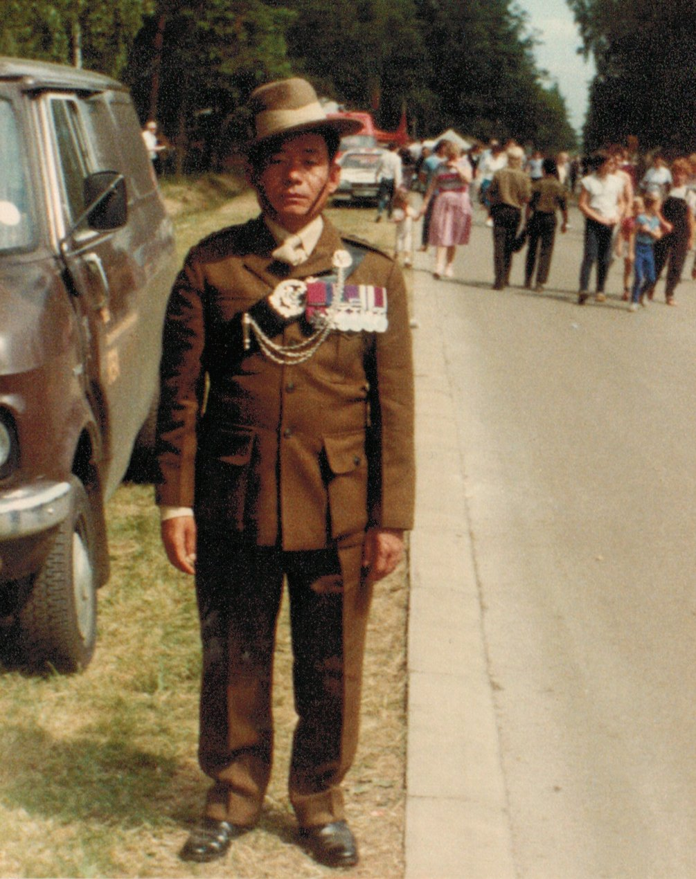 Photograph of Captain Rambahadur Limbu VC, MVO taken at the Aldershot Army Show in Aldershot in Hampshire